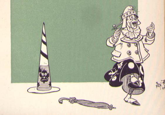 An illustration by W. W. Denslow from The Wonderful Wizard of Oz, also known as The Wizard of Oz, a 1900 children's novel by L. Frank Baum.